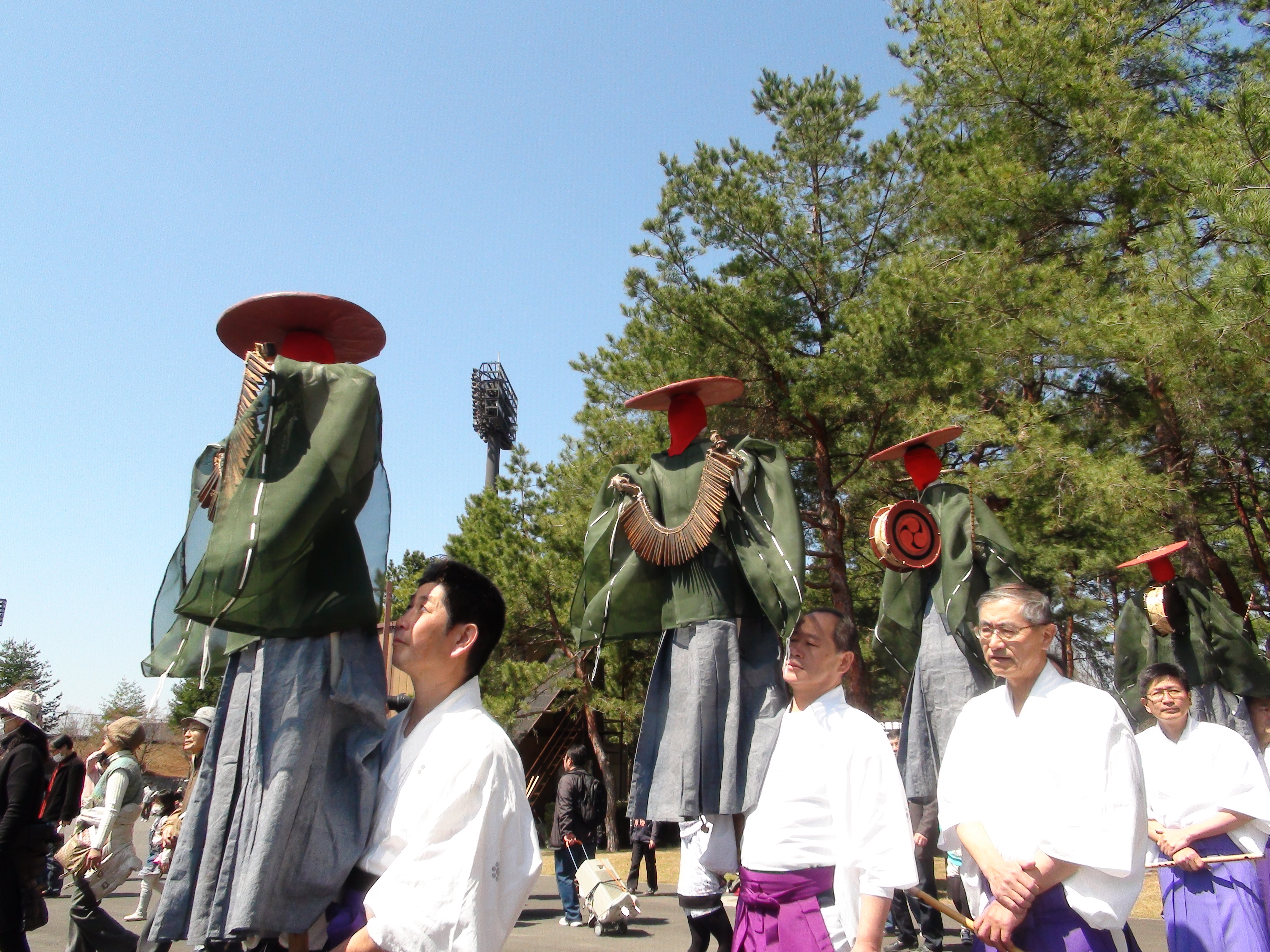 Tenzushi-mai dance Omiyuki